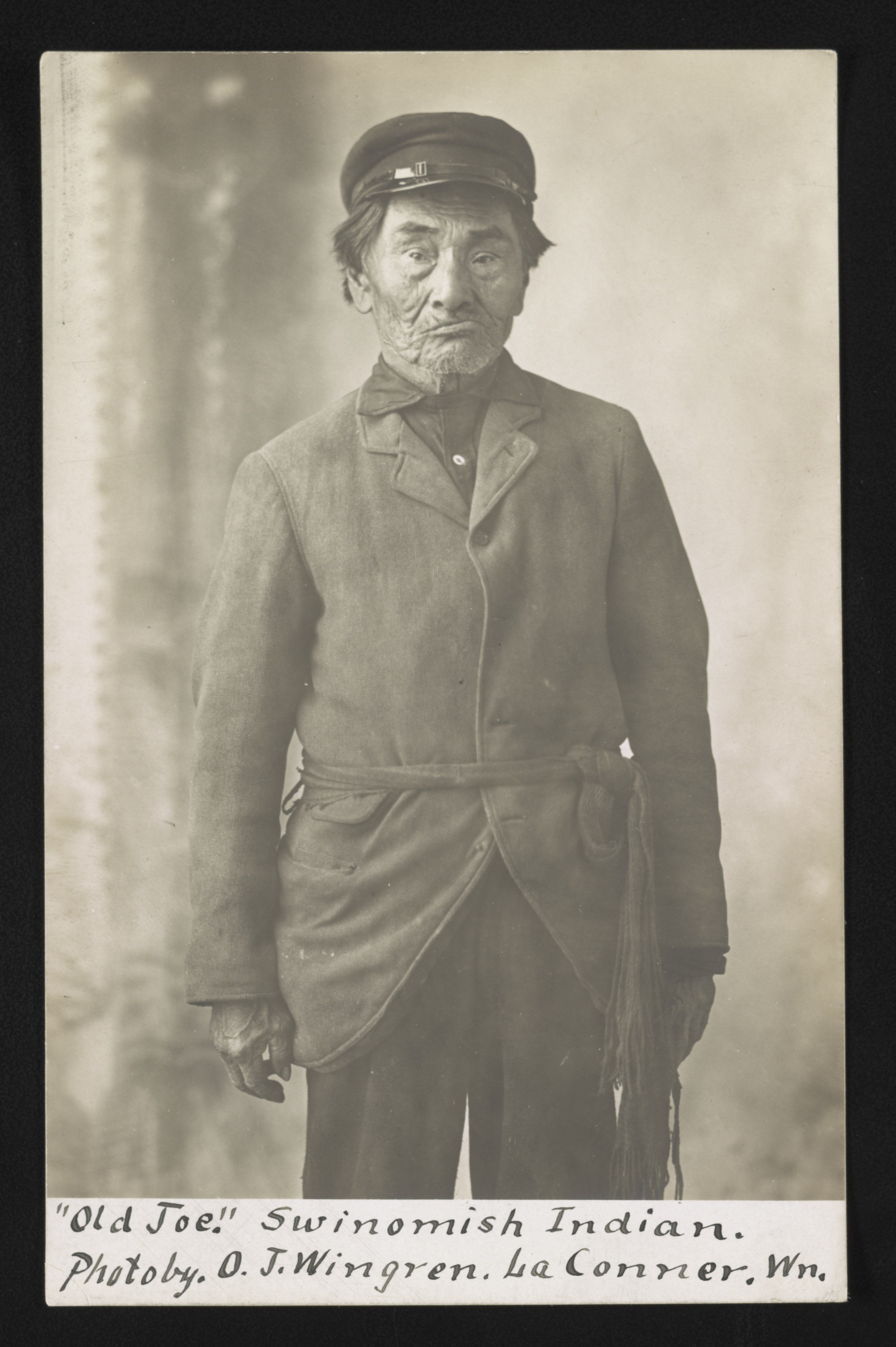 Title: "Old Joe," Swinomish Indian / Photo by O.J. Wingren., La Conner, Wn. Abstract/medium: 1 photograph : gelatin silver print ; mount 14 x 9 cm (postcard format)